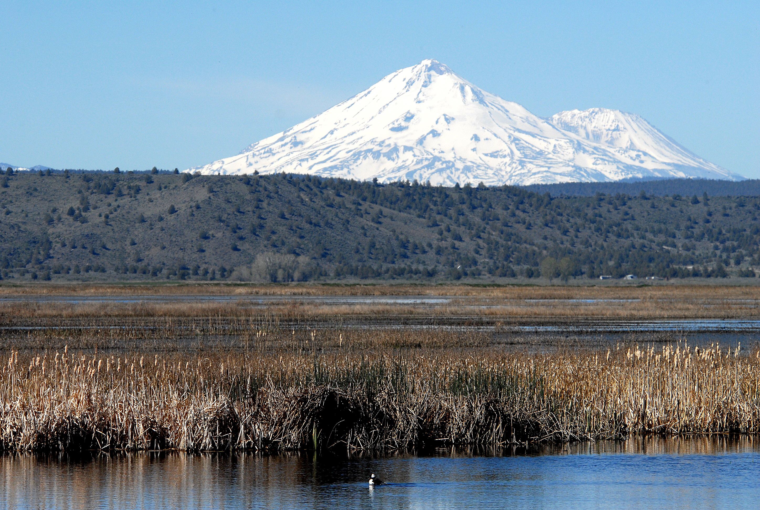 Marsh Scene at Lower Klamath National Wildlife Refuge (Unit 13), with Mount Shasta rising above, in California.